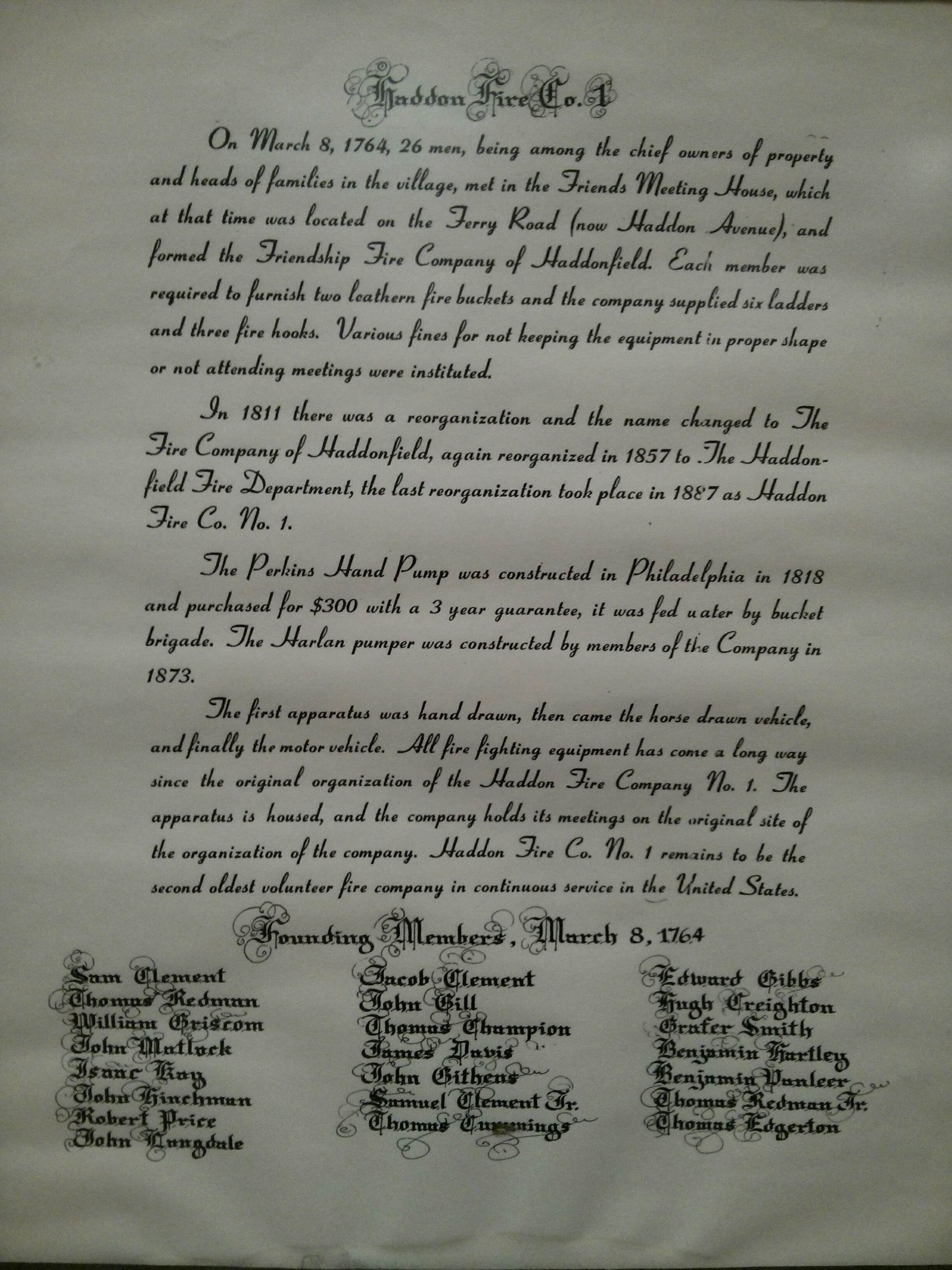 Plaque in the Haddonfield Fire Department Building.